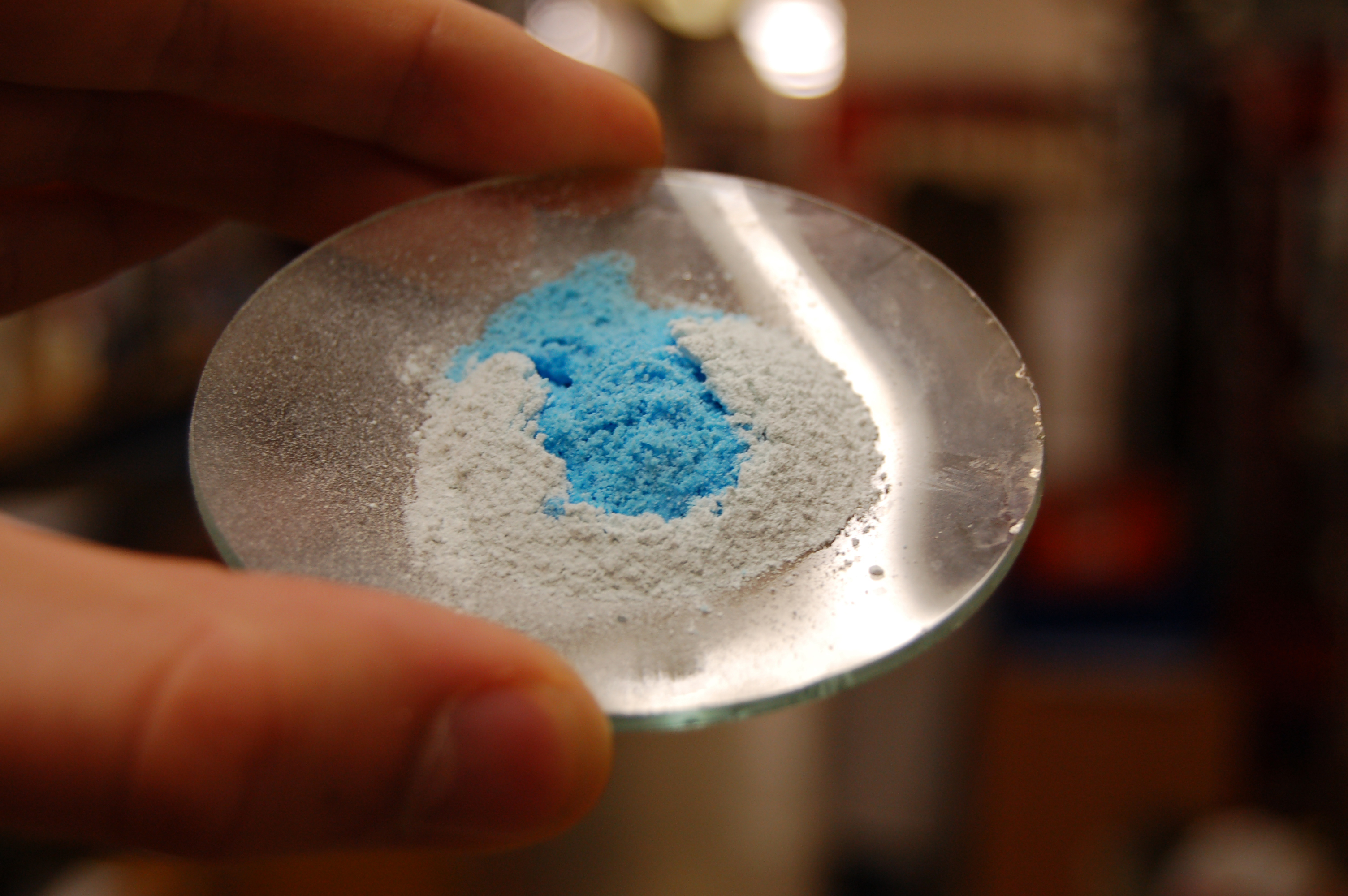 Hydrating copper(II) sulfate